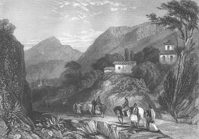 Agios Adrianos, Argolida, Greece in 1839